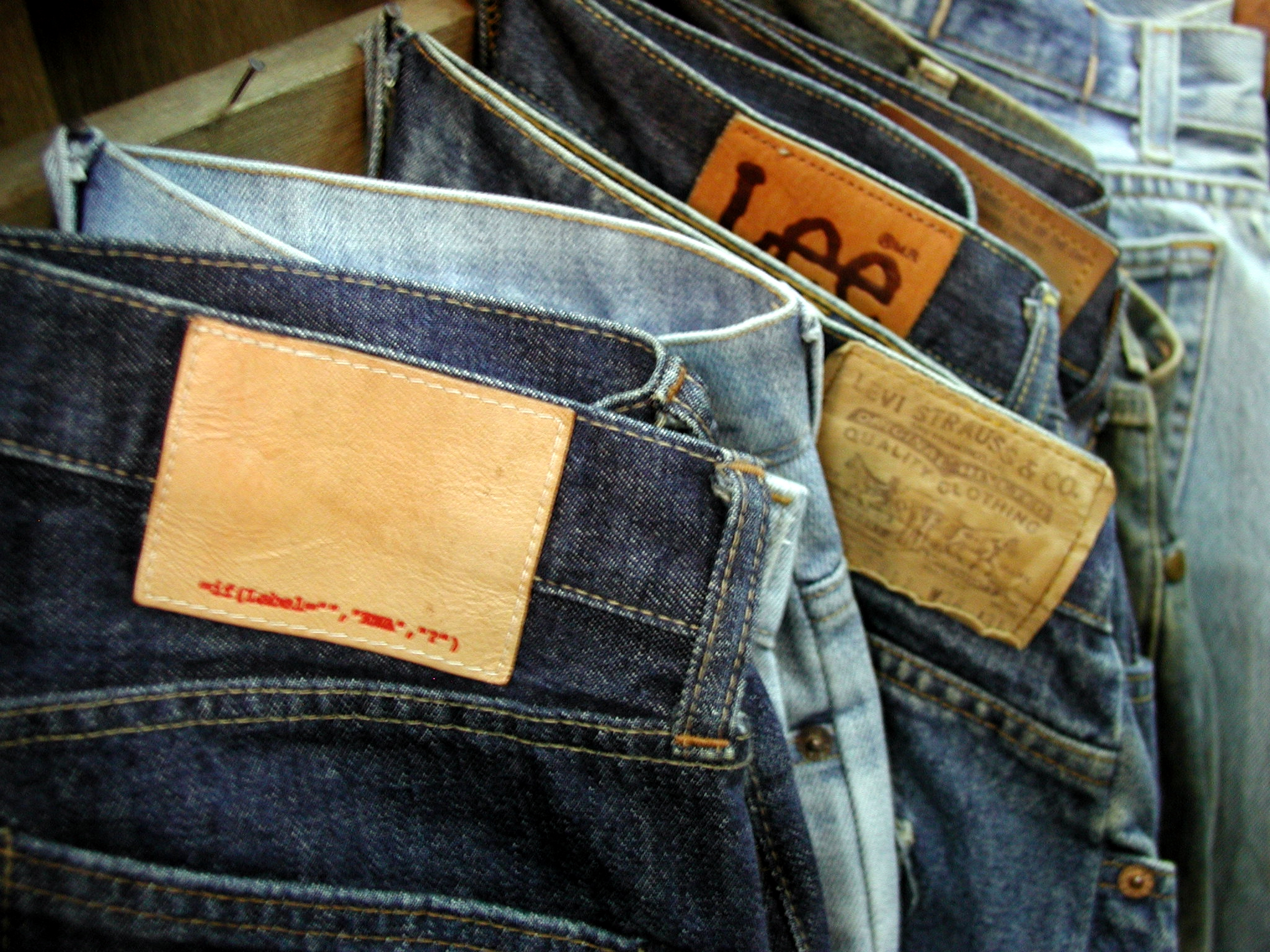 The label reads: =if(Label="","RMA","?") This is an Excel function. It also would work in Microsoft Access. The factory is using Excel or Access to store all the logos for the different jeans they make and then print them onto leather. This is what happens when there is a bug in their software. Chatuchak market, Krung Thep, Thailand. (Bangkok)